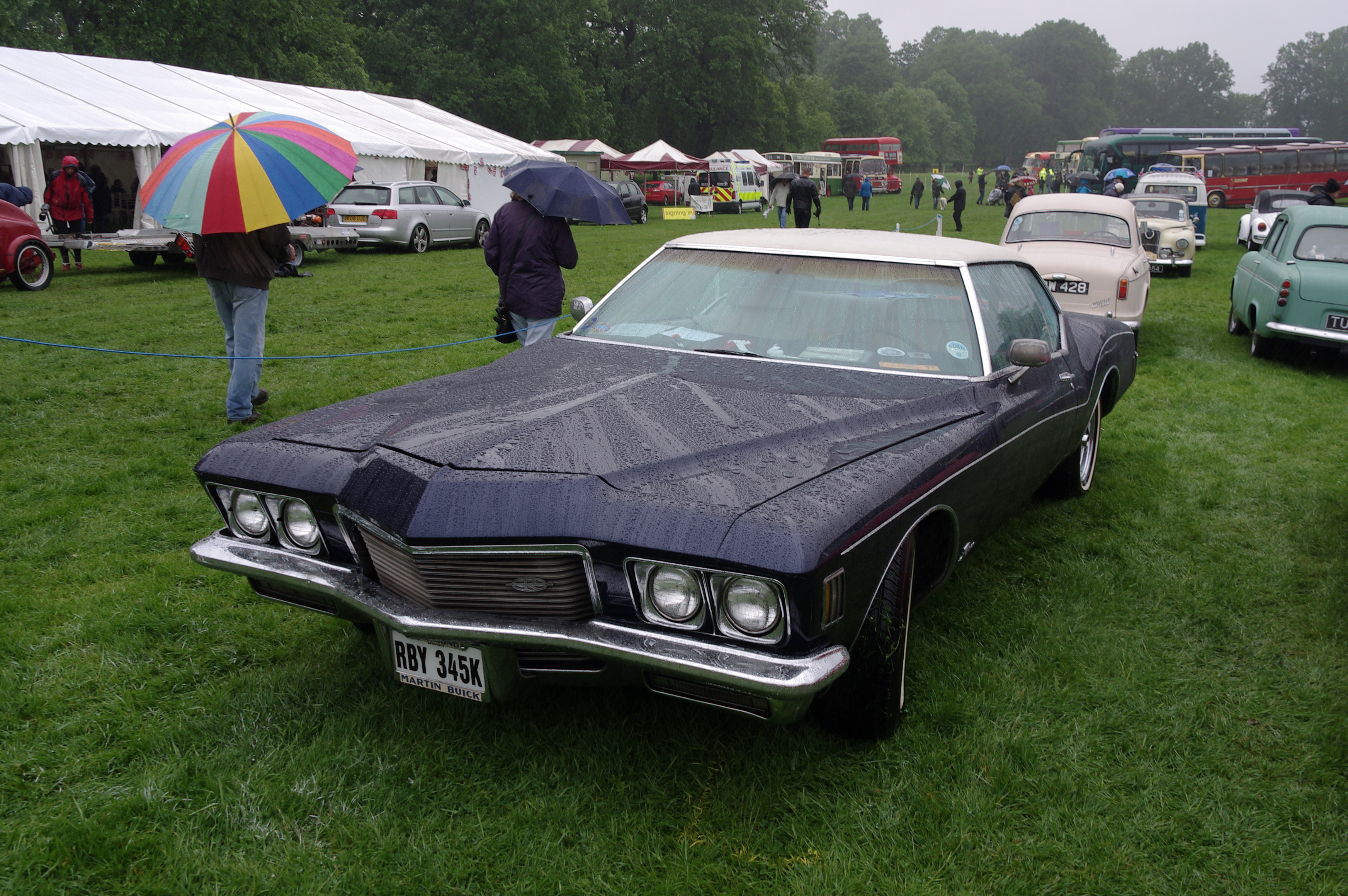 Buick Riviera at the Nottingham Autokarna.